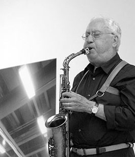 Lee Konitz in Aarhus, Denmark